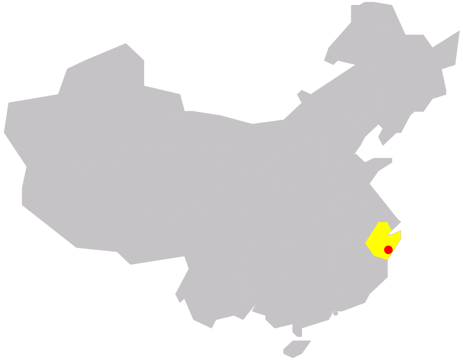 position of Wenzhou in China